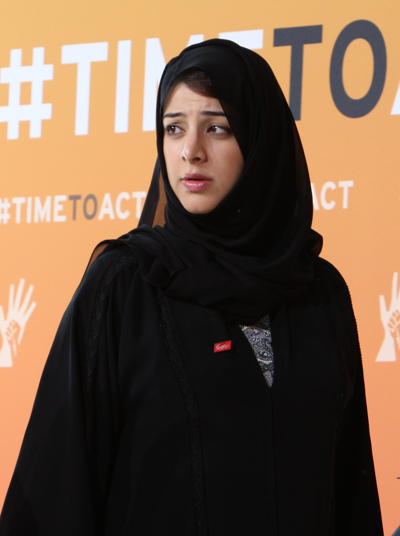 Ministers' Day at the Global Summit to End Sexual Violence in Conflict, 12 June 2014.